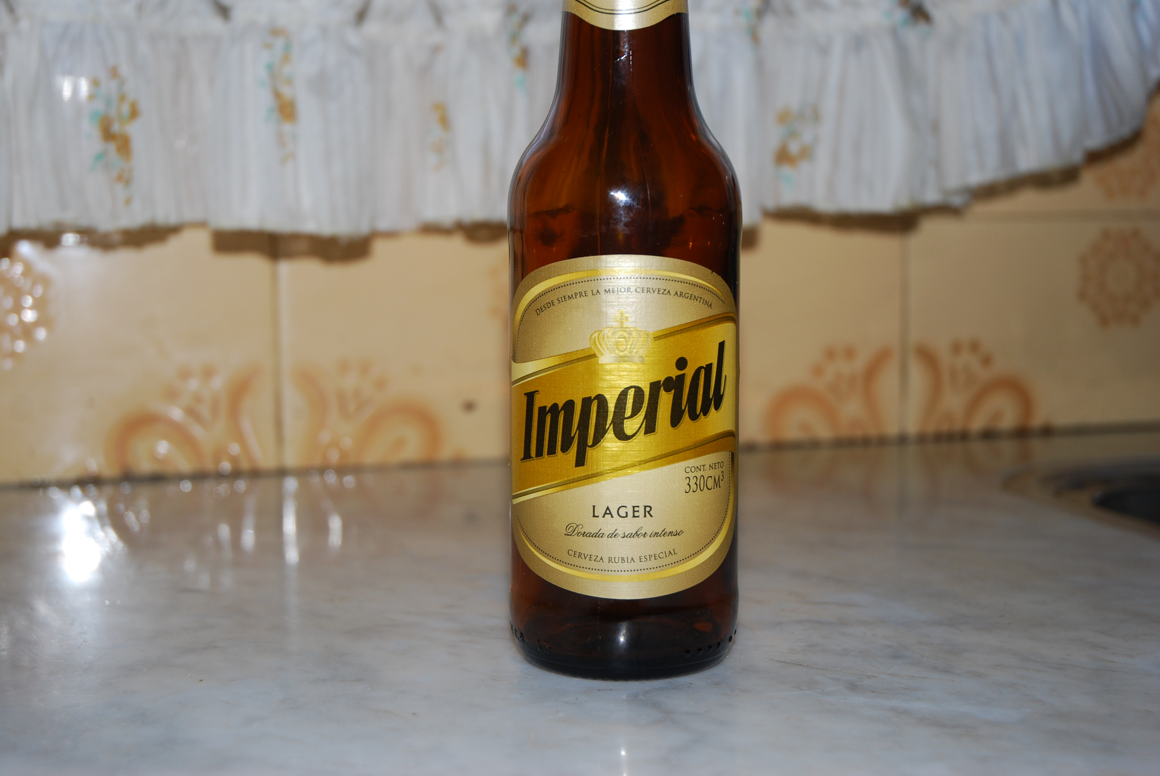 Botella de cerveza Imperial, Argentina (Mar del Plata)